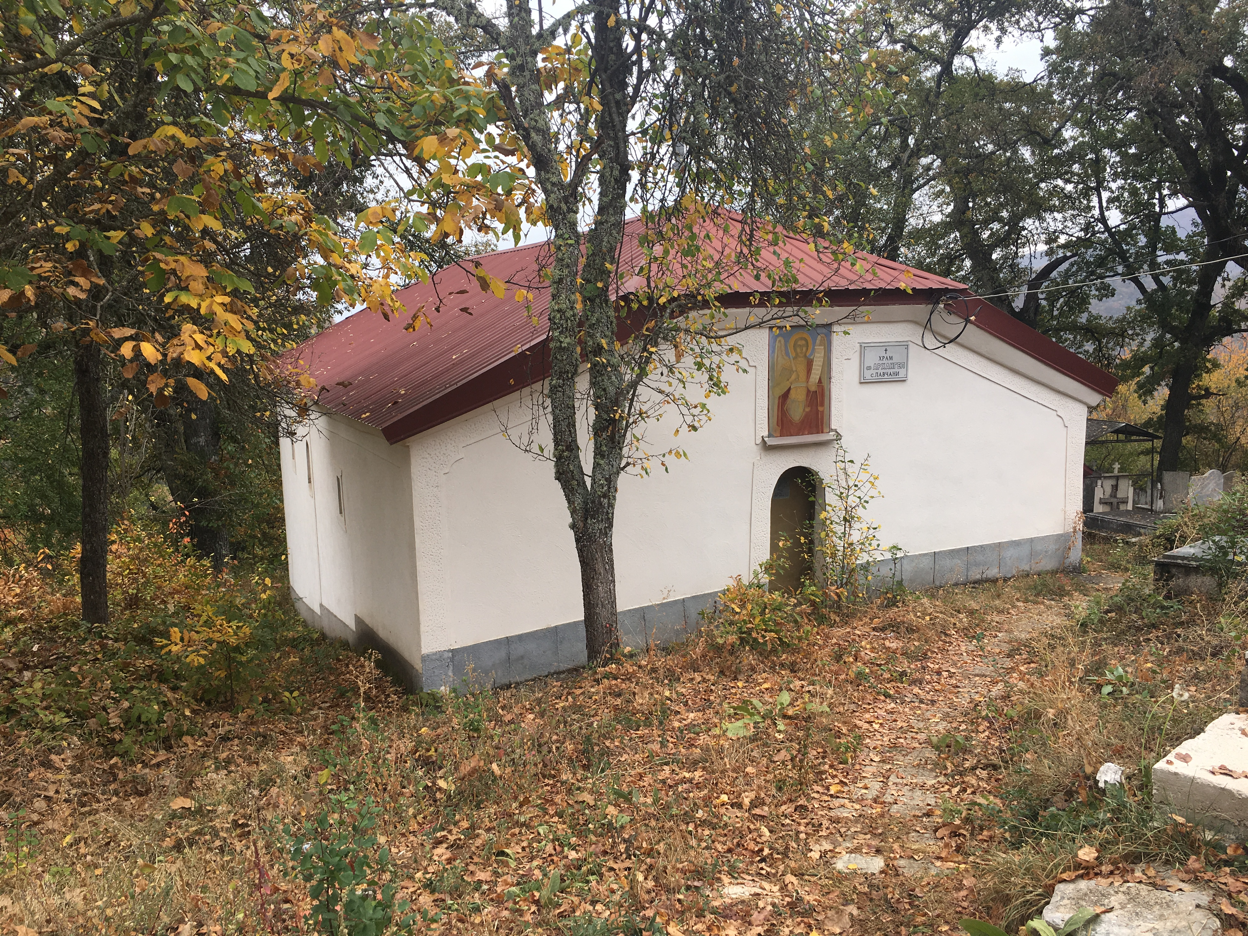 Wikiexpedition to Kopačka